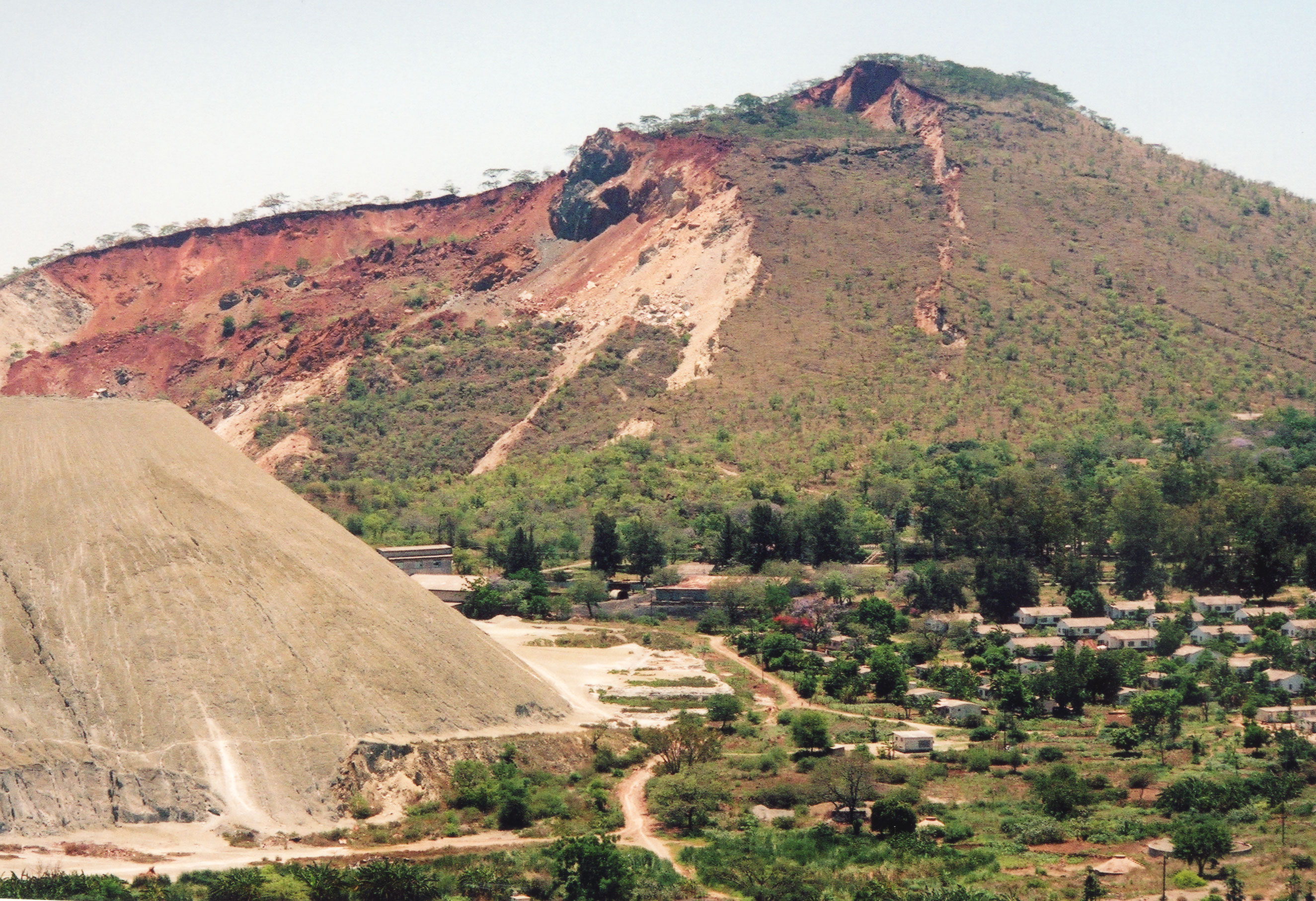 Zimbabwean asbestos mine King Mine, Mashava, from Prince Mine- spot the hazards.